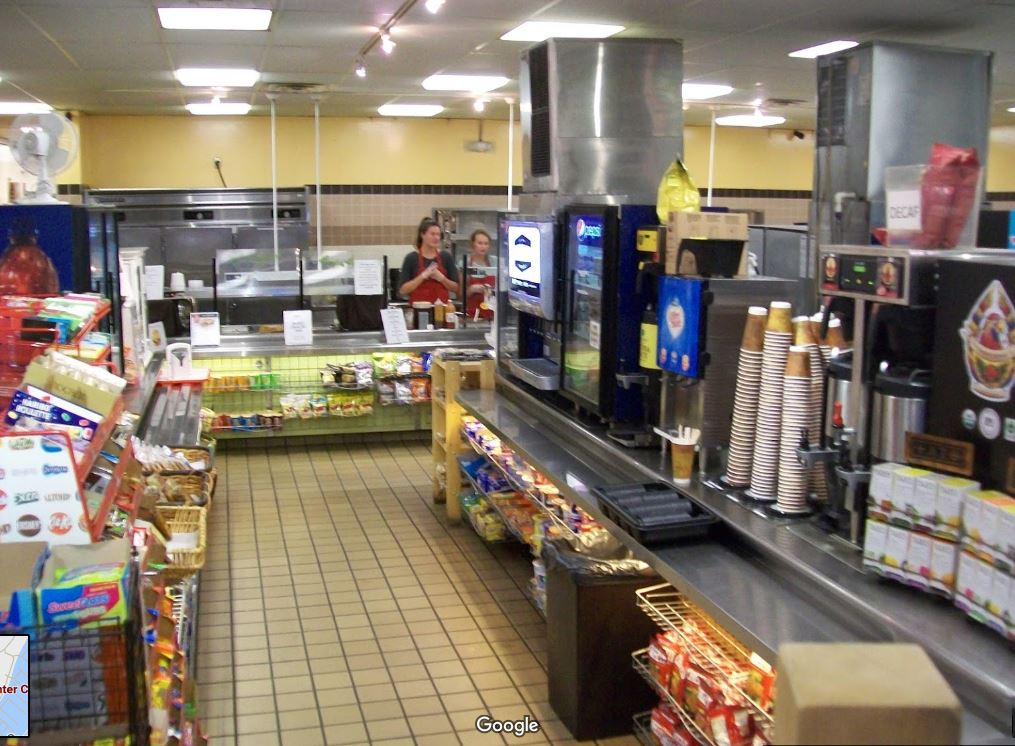 The exit of the food service area of Santa Barbara City College cafeteria